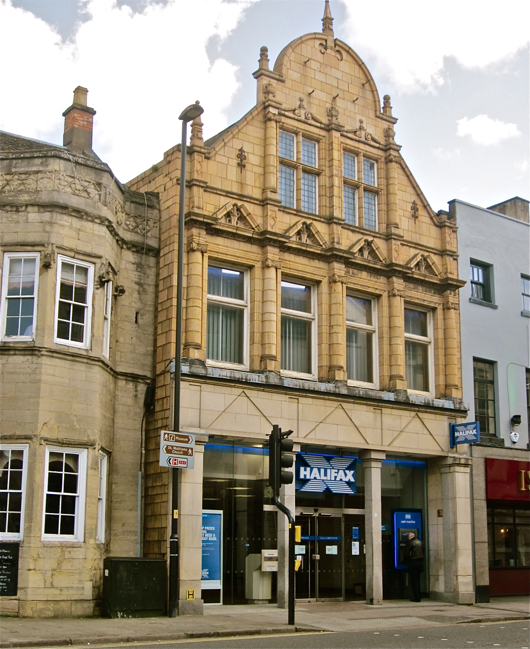 Former Boots Shop, Grantham 1899. Designed by Albert Nelson Bromley of Nottingham in 1899, using a creamy brown terracotta facing.